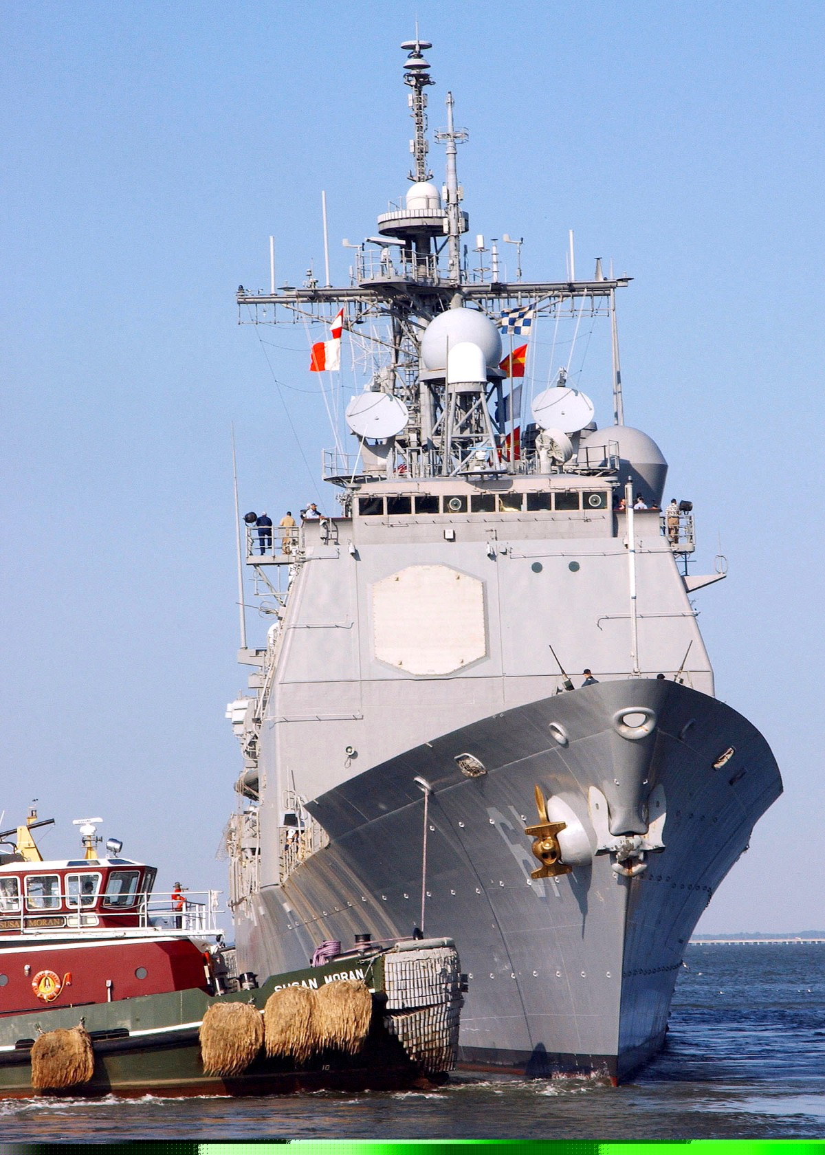 The guided missile cruiser USS Monterey (CG 61) departs Naval Station Norfolk to avoid Hurricane Isabel. More than 40 destroyers, frigates, and amphibious ships left the naval station piers to avoid any potential damage from the high winds and seas generated by the hurricane.